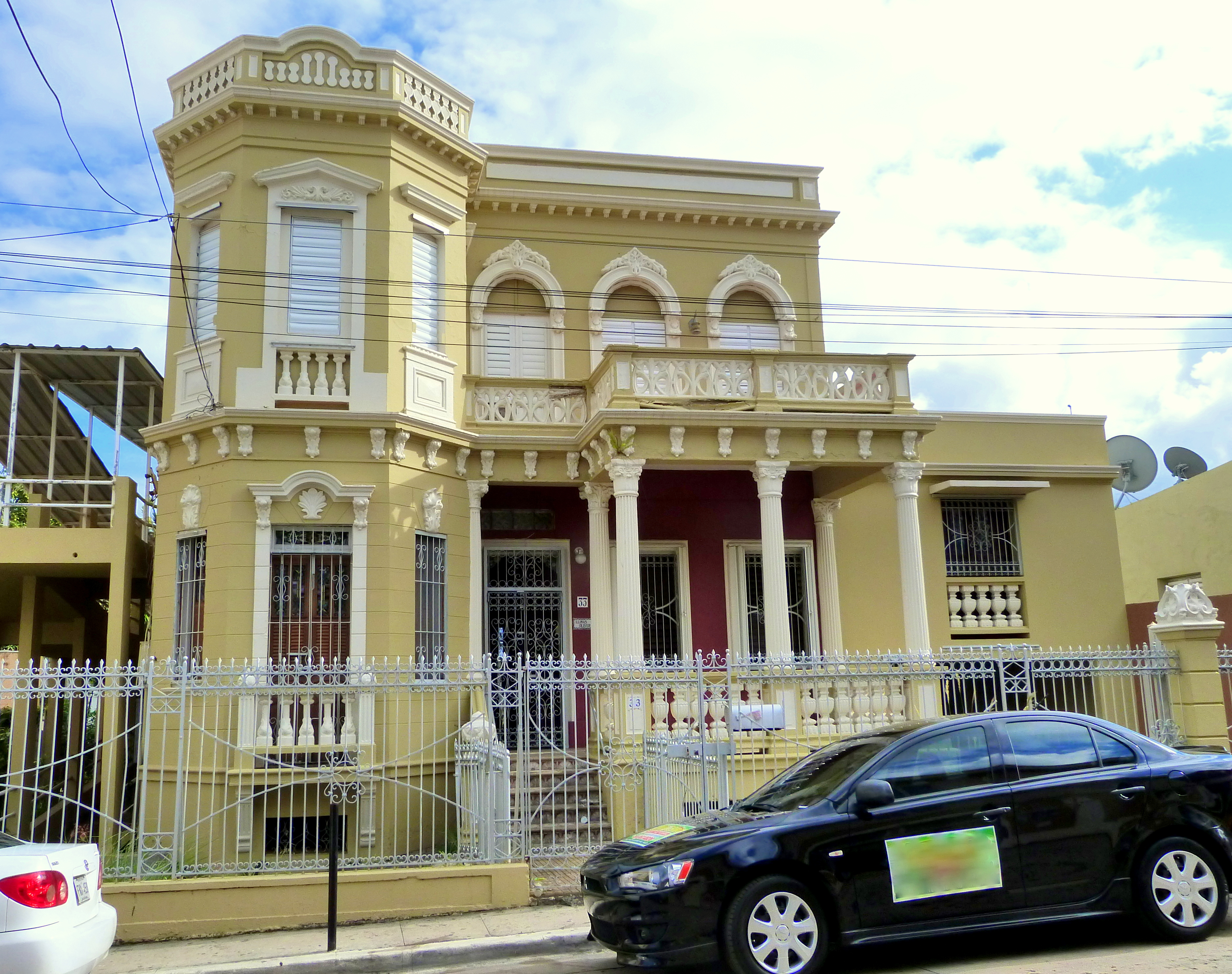 The historic Chalet Amill (built 1914), located at Calle Mattei Lluveras #33 in Yauco, Puerto Rico, is listed on the U.S. National Register of Historic Places.